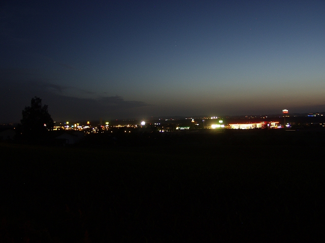 Ansfelden on the edge of night